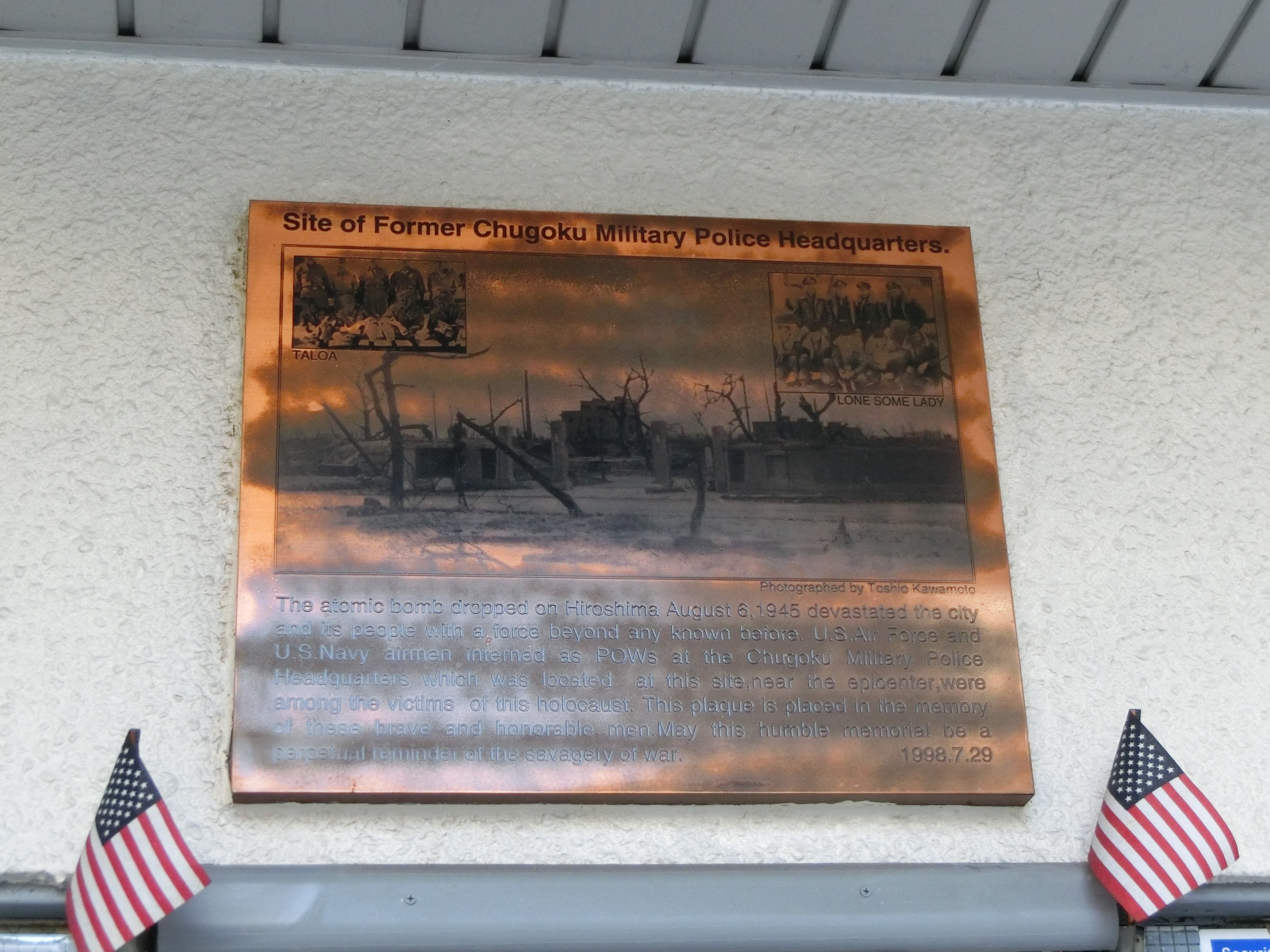 A-bombed Americans Memorial Plate located in Motomachi, Central Ward, Hiroshima, Hiroshima